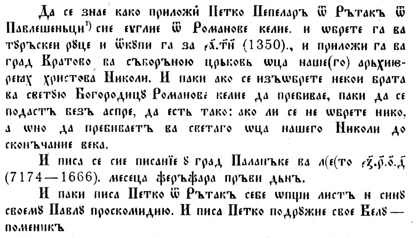 Kratovo St Nikolas Church Gospel 1666